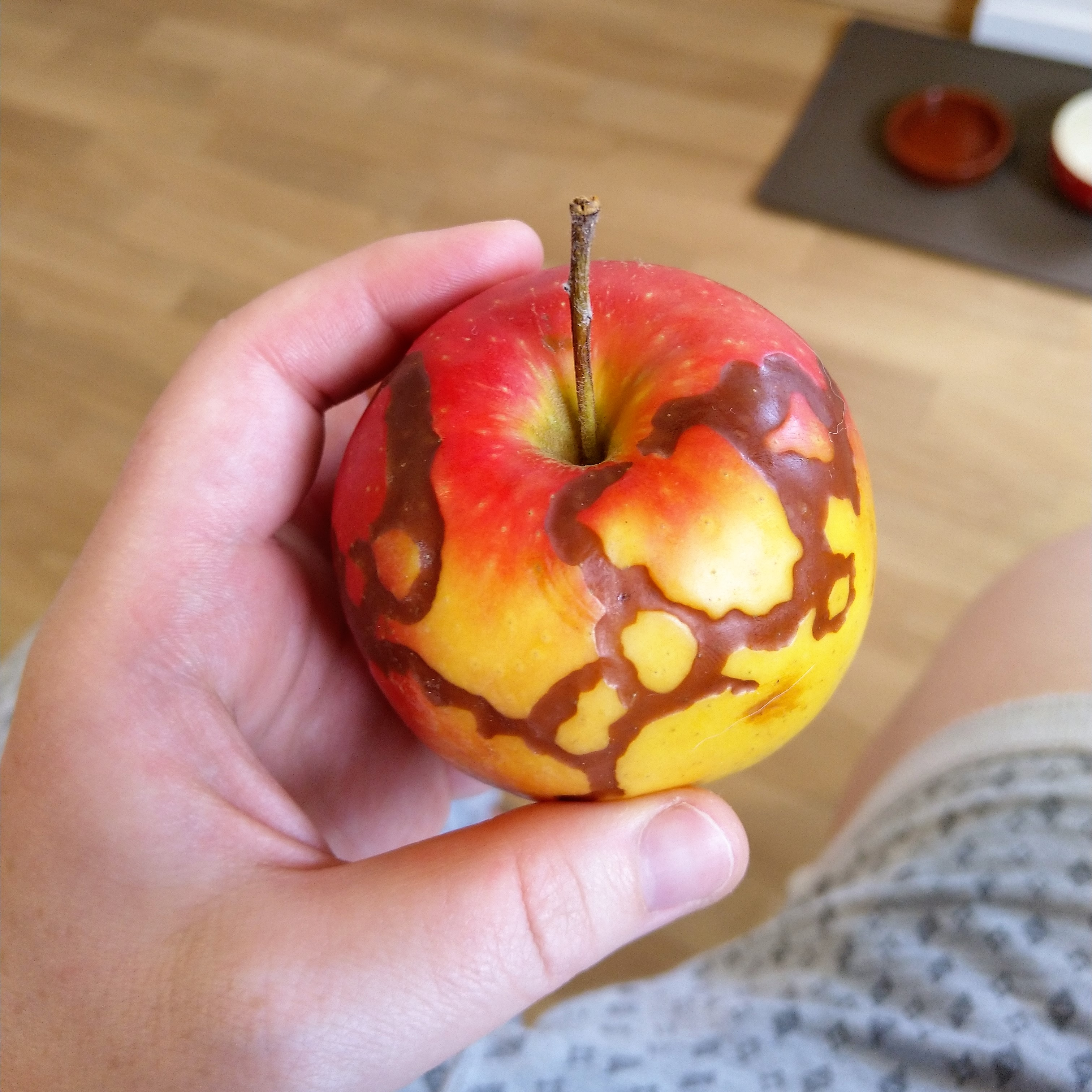 scald, skin browning, rubinstar-apple